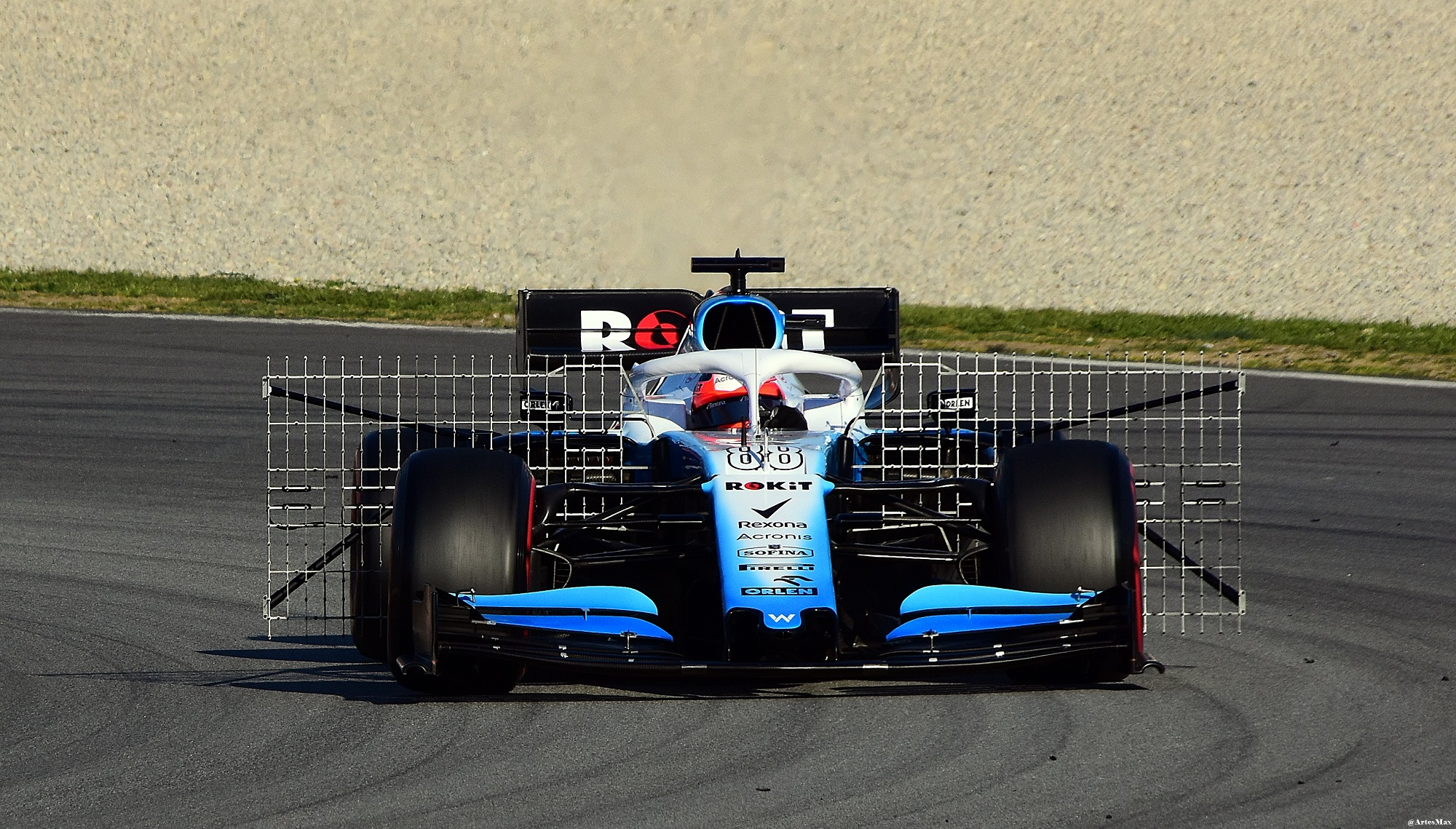 2019 Formula One Test Days / Circuit de Barcelona / Williams FW42 / Robert Kubica / ROKiT Williams Racing